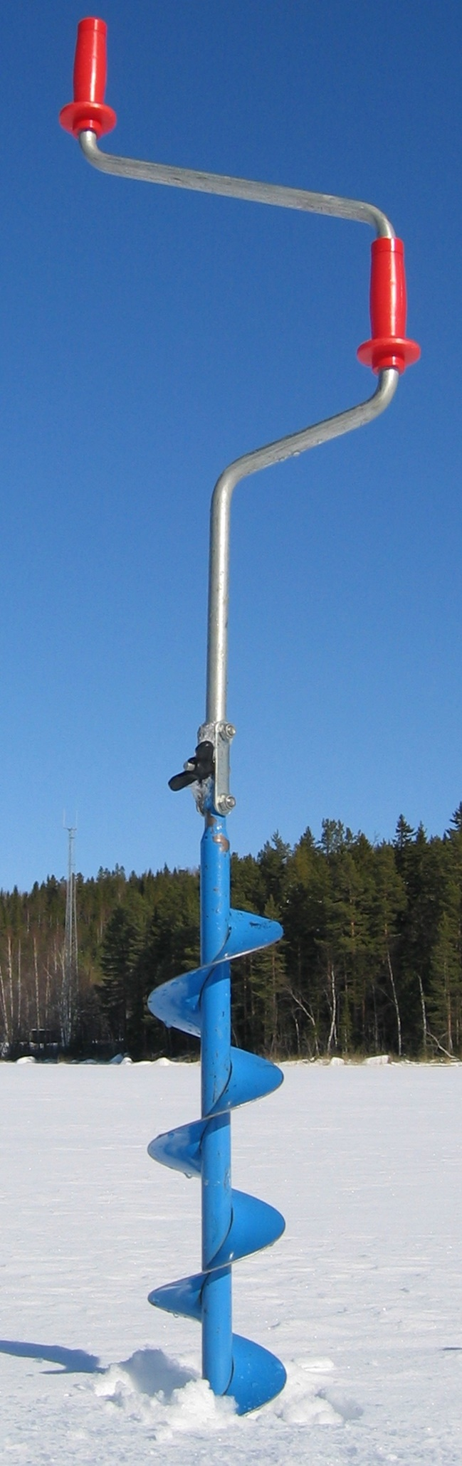 Ice auger